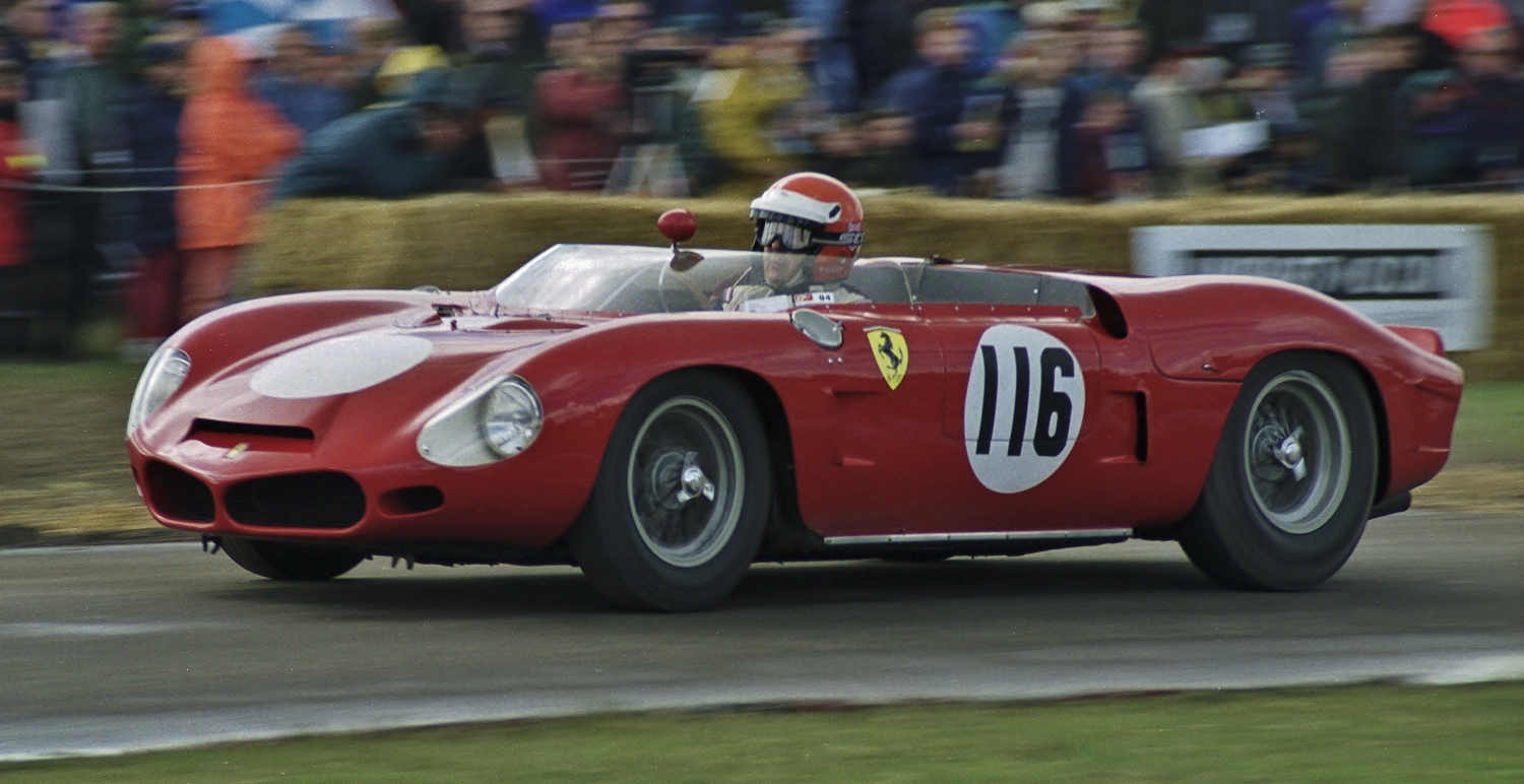 Ferrari 268SP - 1997 GOODWOOD FESTIVAL OF SPEED, June 20–22, 1997. This is s/n 0798.Dancing in the Rain, Goodwood report